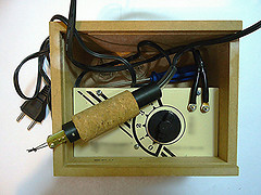 A pyrograph,used to join (or solder) wax pieces during master models carving. Photo: Mauro Cateb, Brazilian jeweler and silversmith.